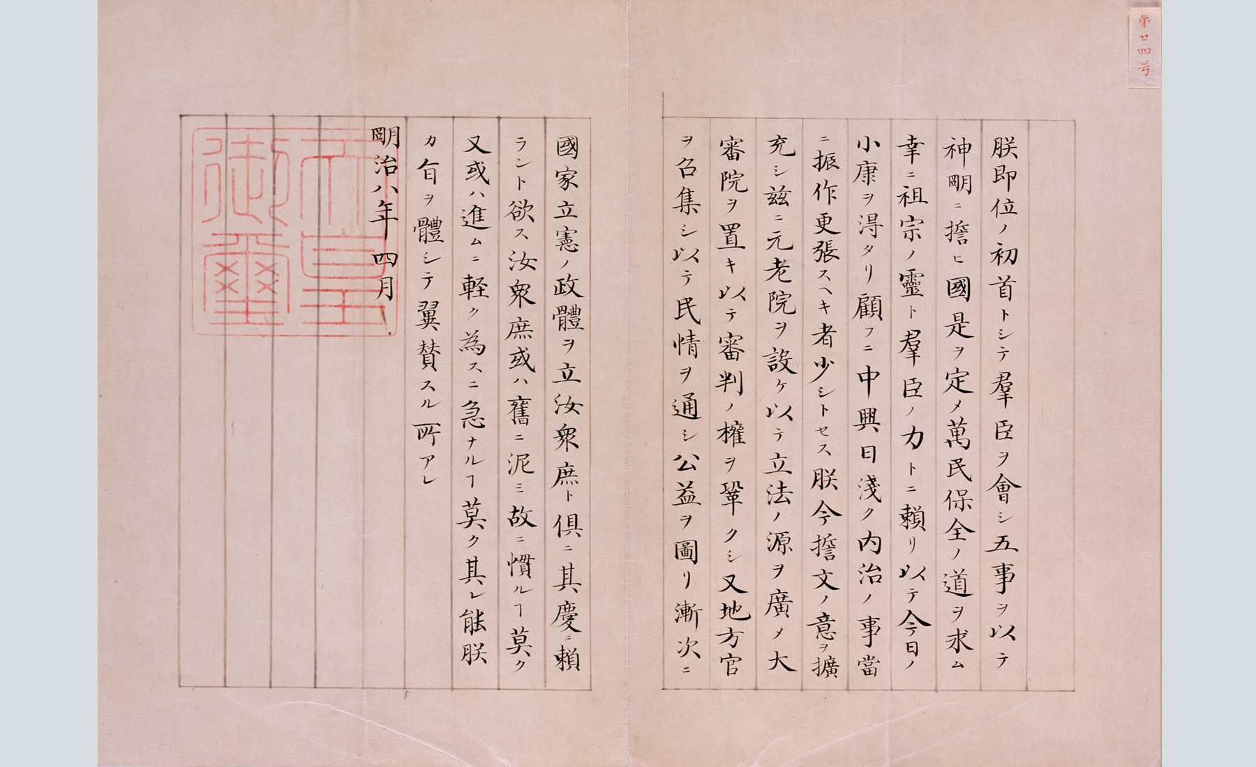 元老院、大審院、地方官会議ヲ設置シ漸時立憲政体樹立ノ詔勅（立憲政体の詔書、Imperial Rescript Establishing a Constitutional Form of Government）